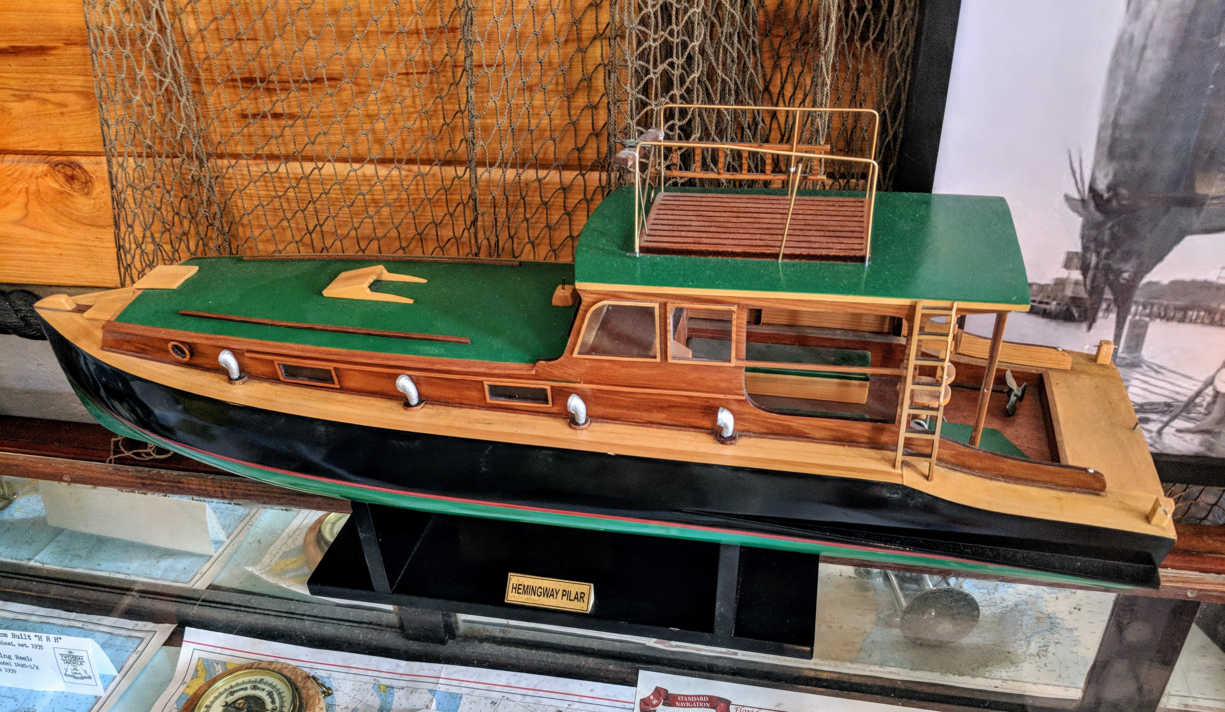 A model of Ernest Hemingway's yacht, the Pilar. Photo by Jim Heaphy.